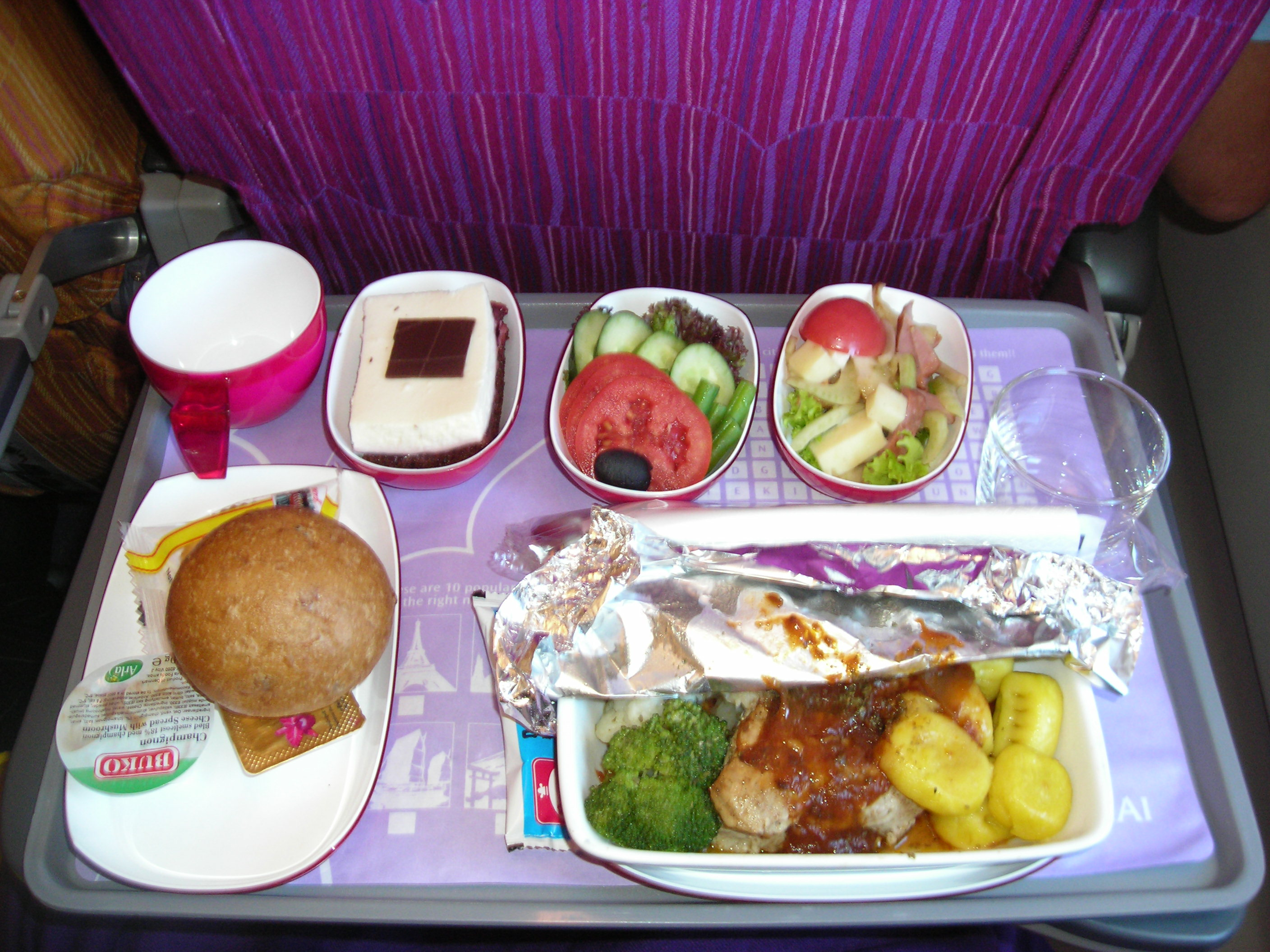 Airline meal (economy class) BKK→MUC, beverages not yet served